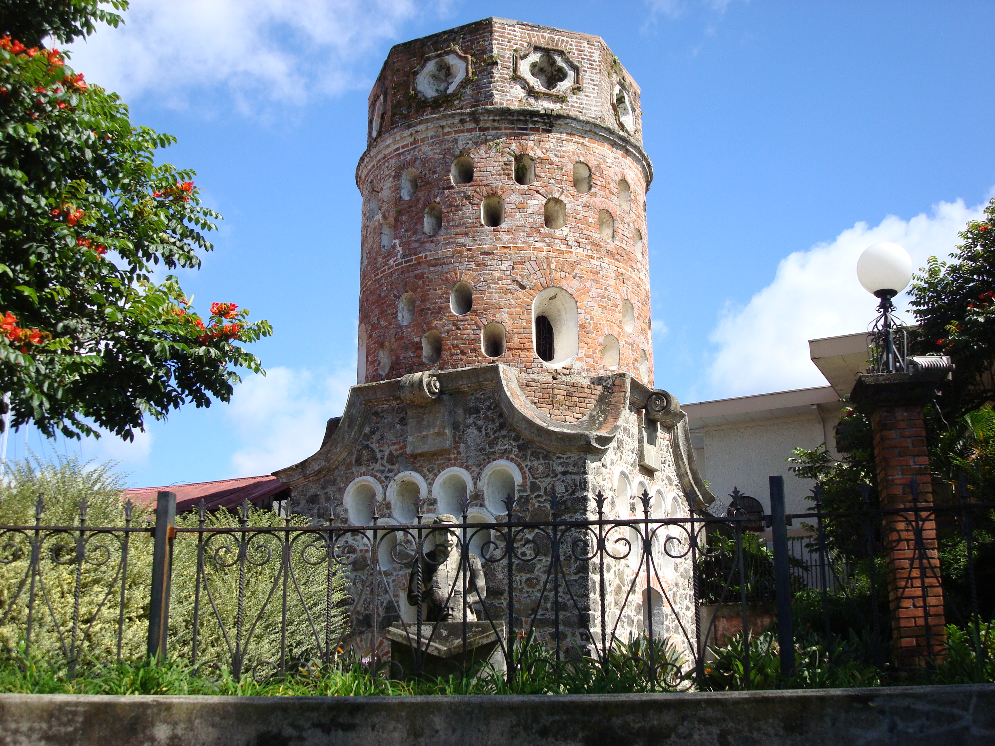 Fortín